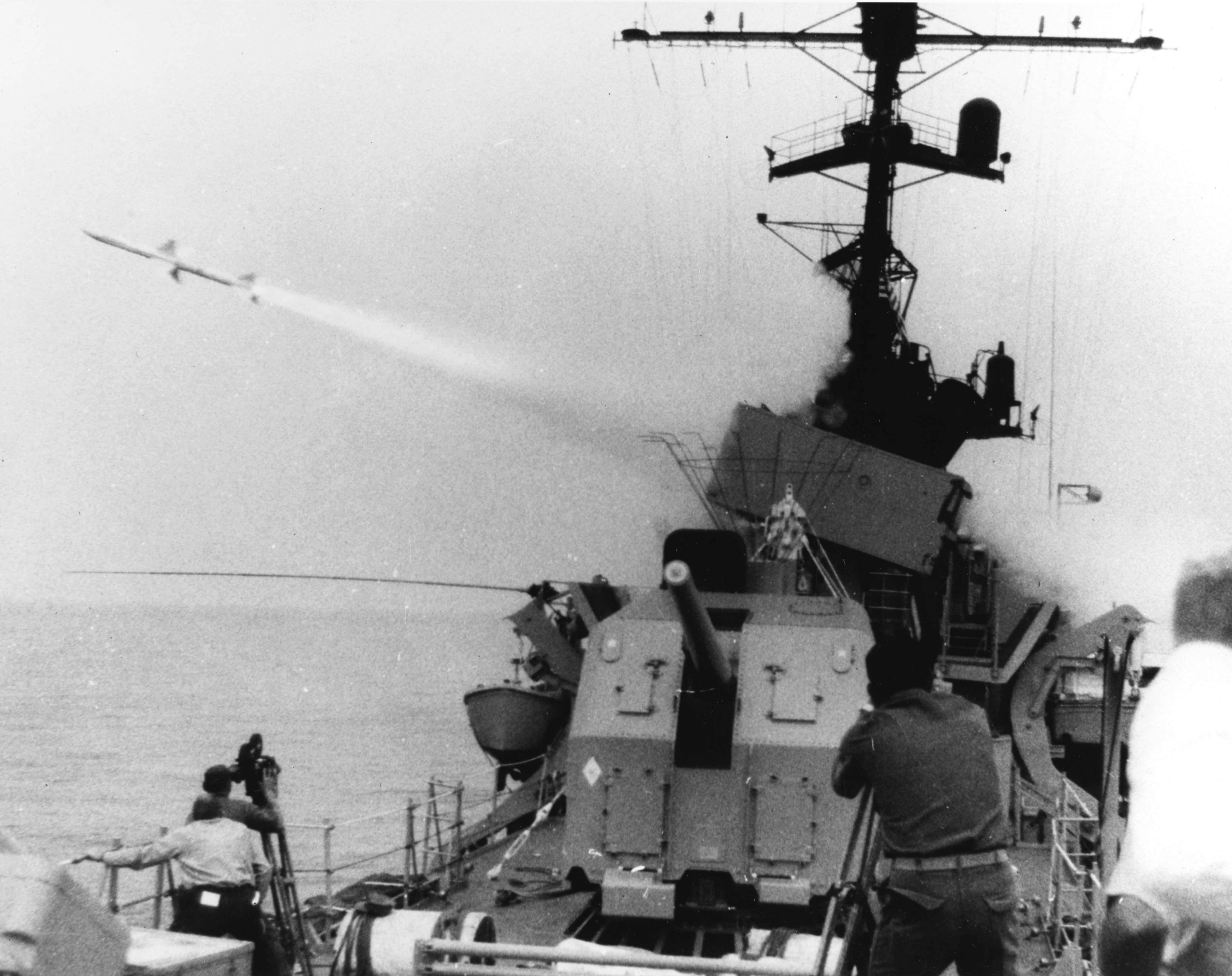 The U.S. Navy destroyer escort USS Bradley (DE-1041) launching a RIM-7 Sea Sparrow missile during initial shipboard trials of the Basic Point Defense Missile System (BPDMS) between February and September 1967. After its removal, the Mk 25 launcher was installed aboard the aircraft carrier USS Forrestal (CVA-59).